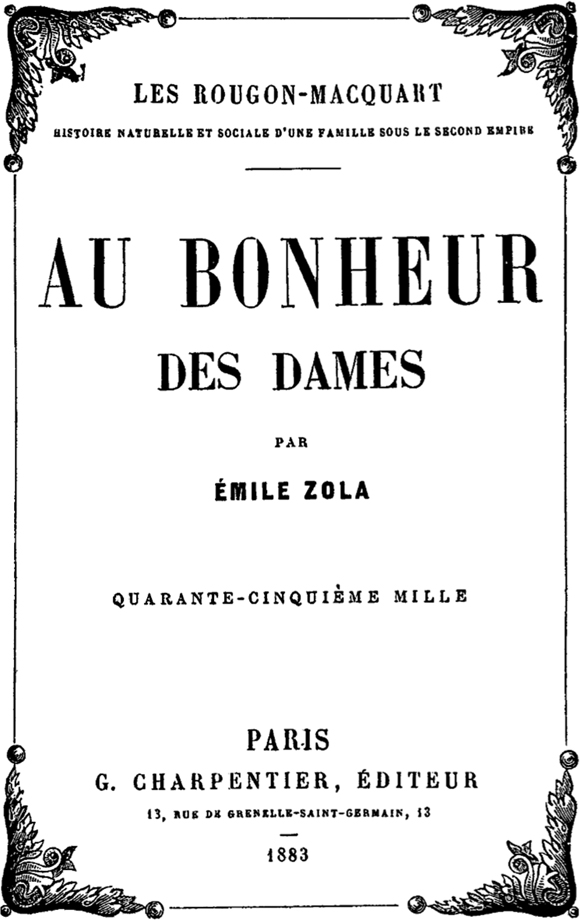 Ladies' Delight (1883) by Émile Zola (1840-1902)